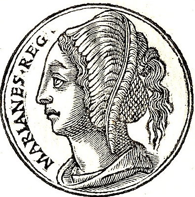 Mariamne I was the second wife of Herod the Great. She was known for her great beauty, as was her brother Aristobulus.